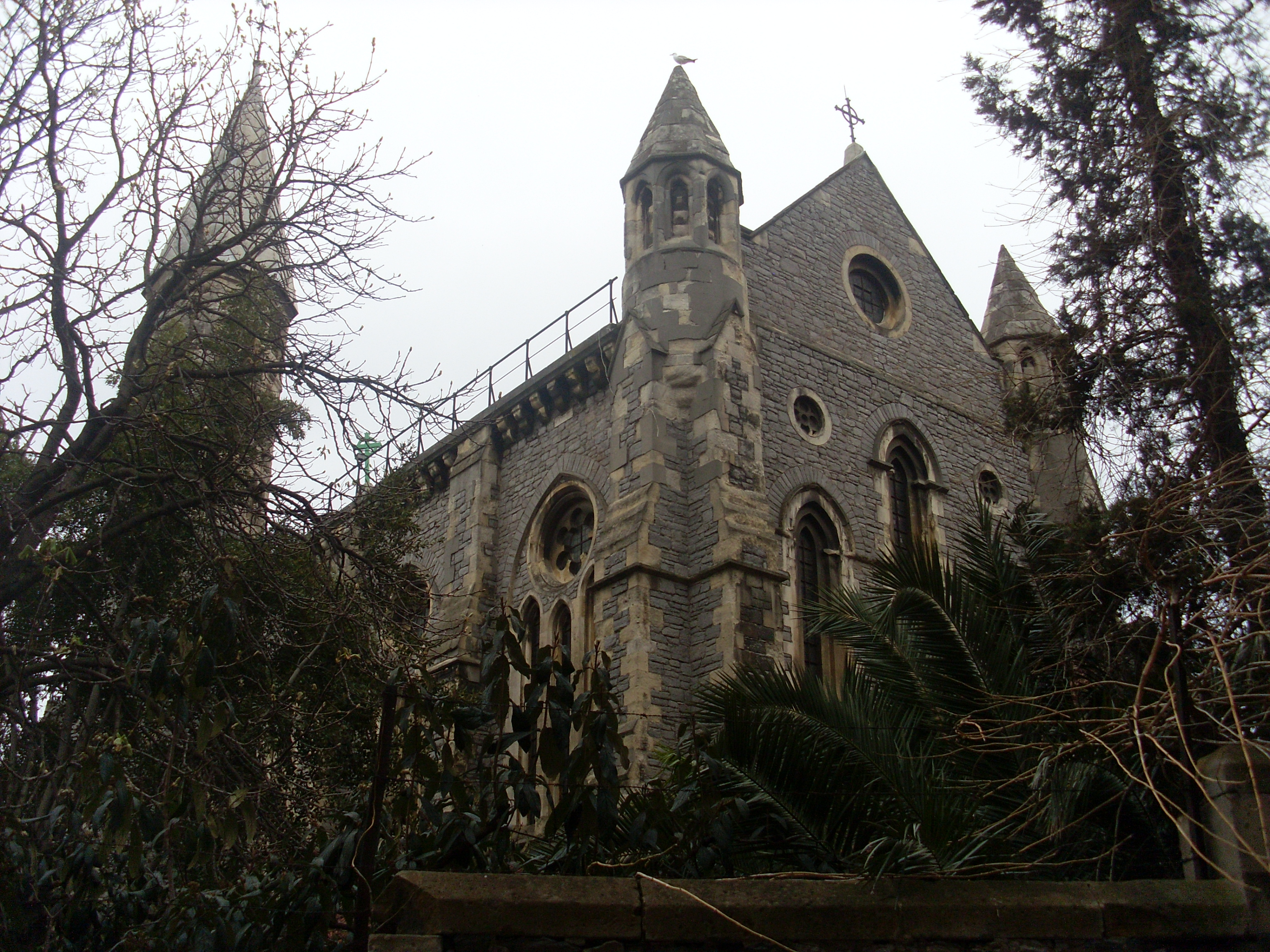 Crimea Memorial Church (Kırım Kilisesi) Beyoğlu, İstanbul